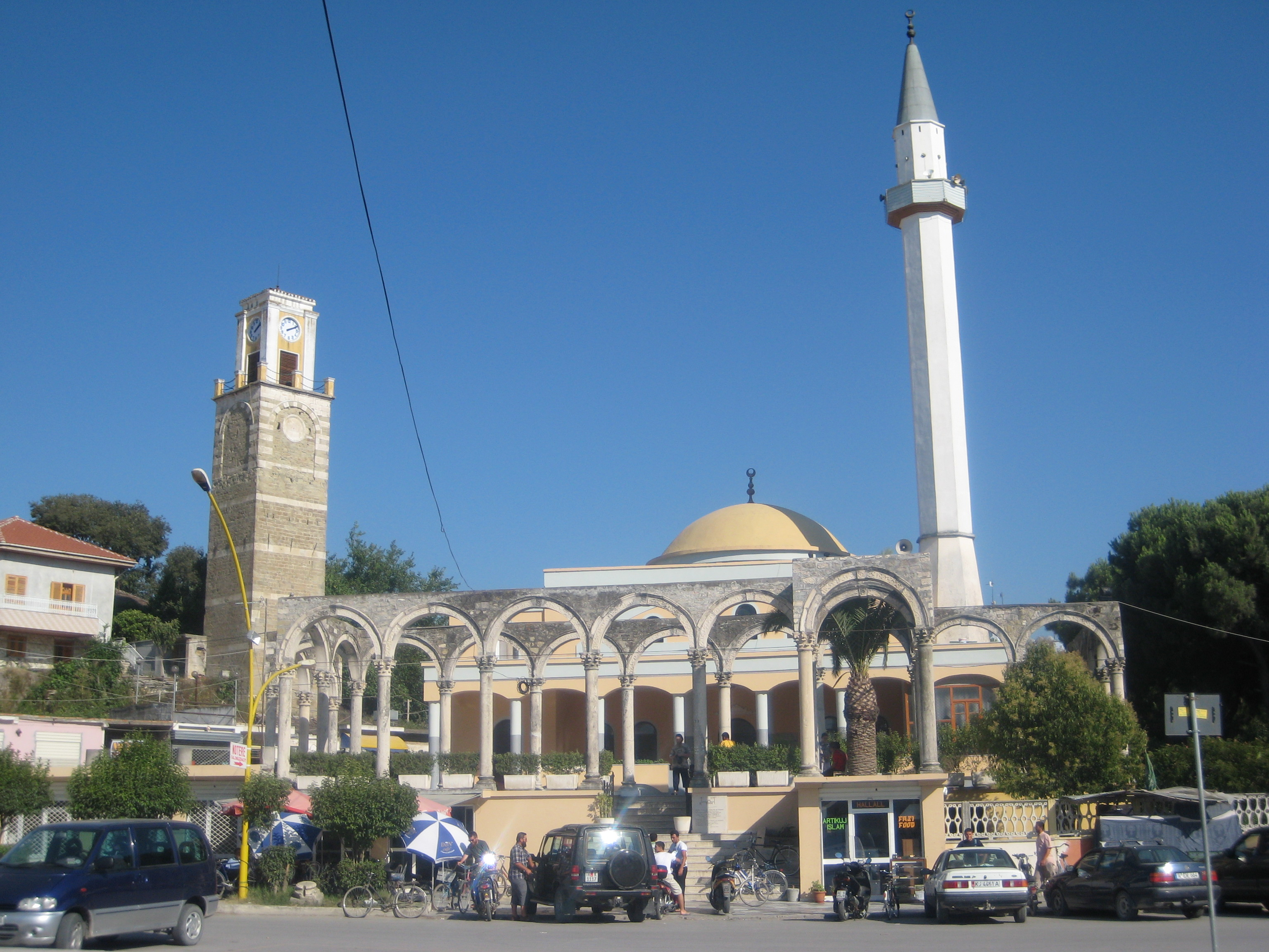 Mosque and Clock Tower in the Center of the Albanian Town of Kavaja